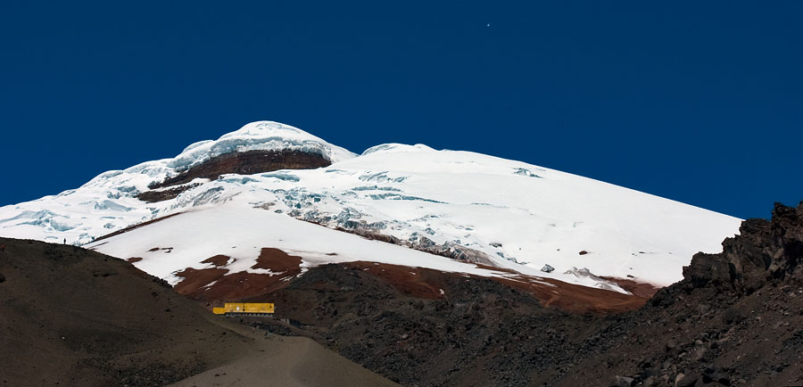 Cotopaxi Volcano and the José Rivas Mountain Refuge